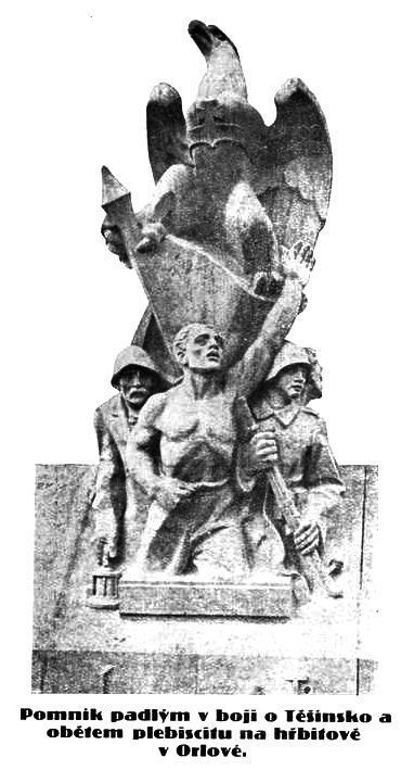 Part of a monument on the graveyard in Orlová to the Czech casualties during the Czechoslovak-Polish fights and clashes over Cieszyn Silesia in 1918 - 1920, including to those killed during the plebiscite preparations. This part was later destroyed during the Polish annexation of the area in 1938.